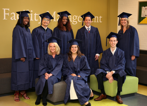 The picture shows 8 students who graduated from the School of Facility Management at the Hanze University Groningen